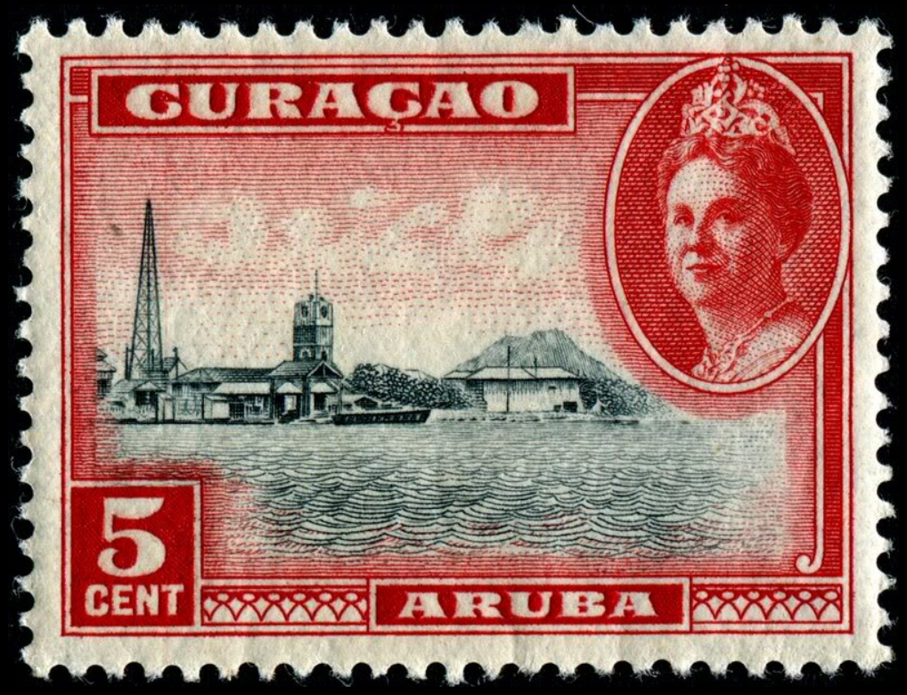 Stamp of Curacao, Aruba, 5c, 1943.